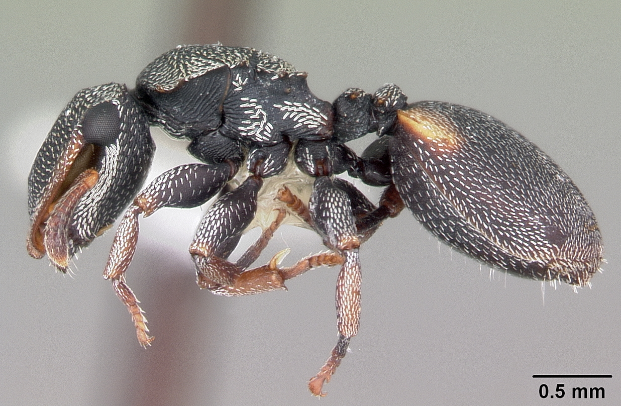 Profile view of ant Cephalotes texanus specimen casent0104842.